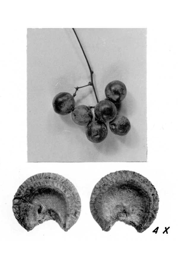 Photograph of Menispermum canadense in botanical family Menispermaceae. Showing various fruits and seed seed are at a ration of 4:1 to fruits. Notice the moon-like structure in the seed.